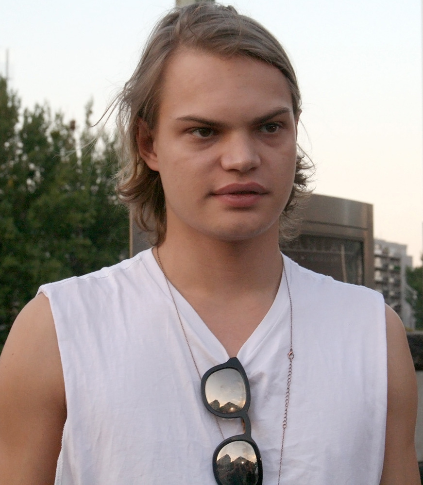 Wilson Gonzalez Ochsenknecht, guest at the Austrian premiere of Heiter bis wolkig at Urania cinema in Vienna, Austria.